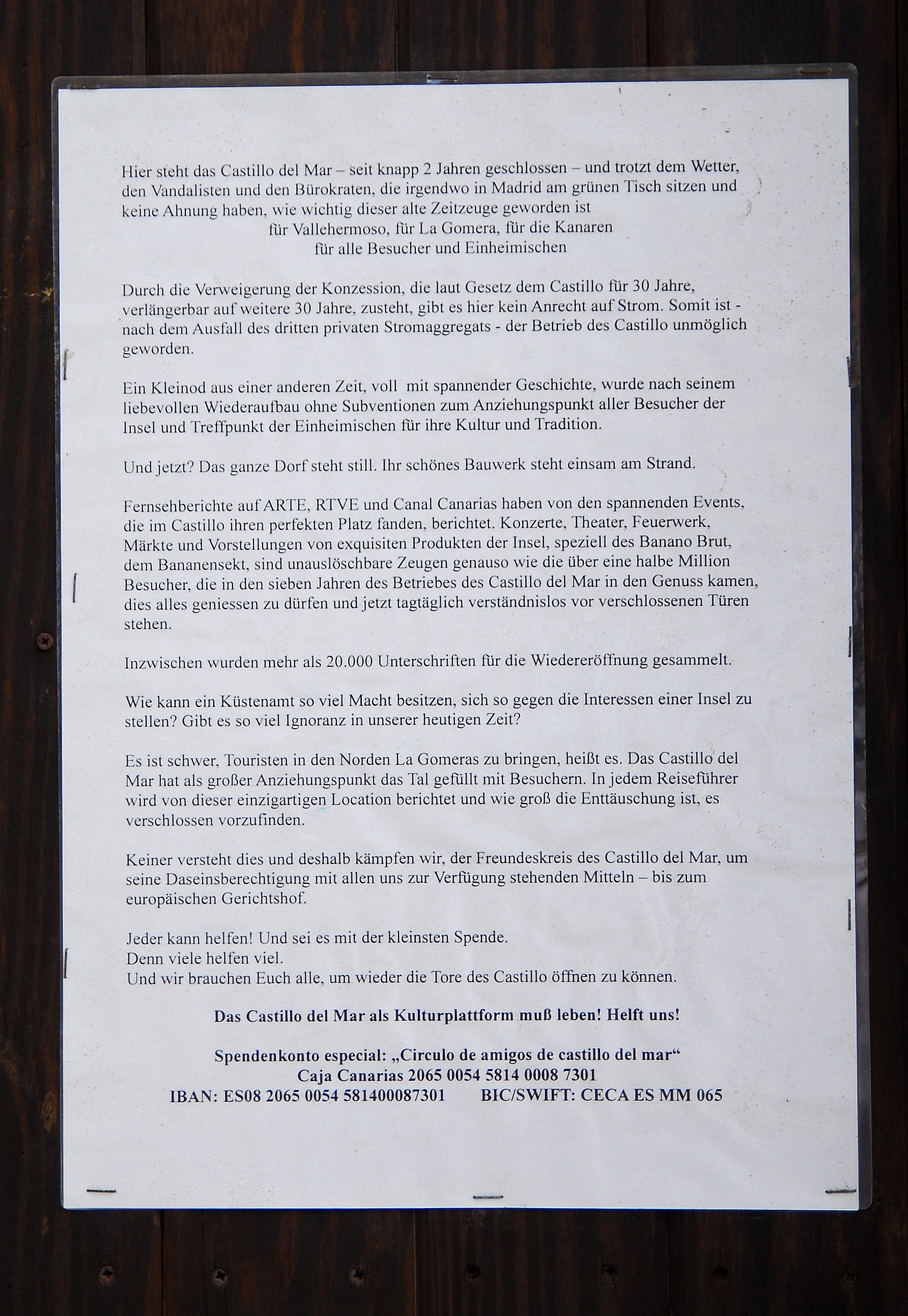 Information about the reasons for closure of Castillo del Mar and appeal to visitors (in German)